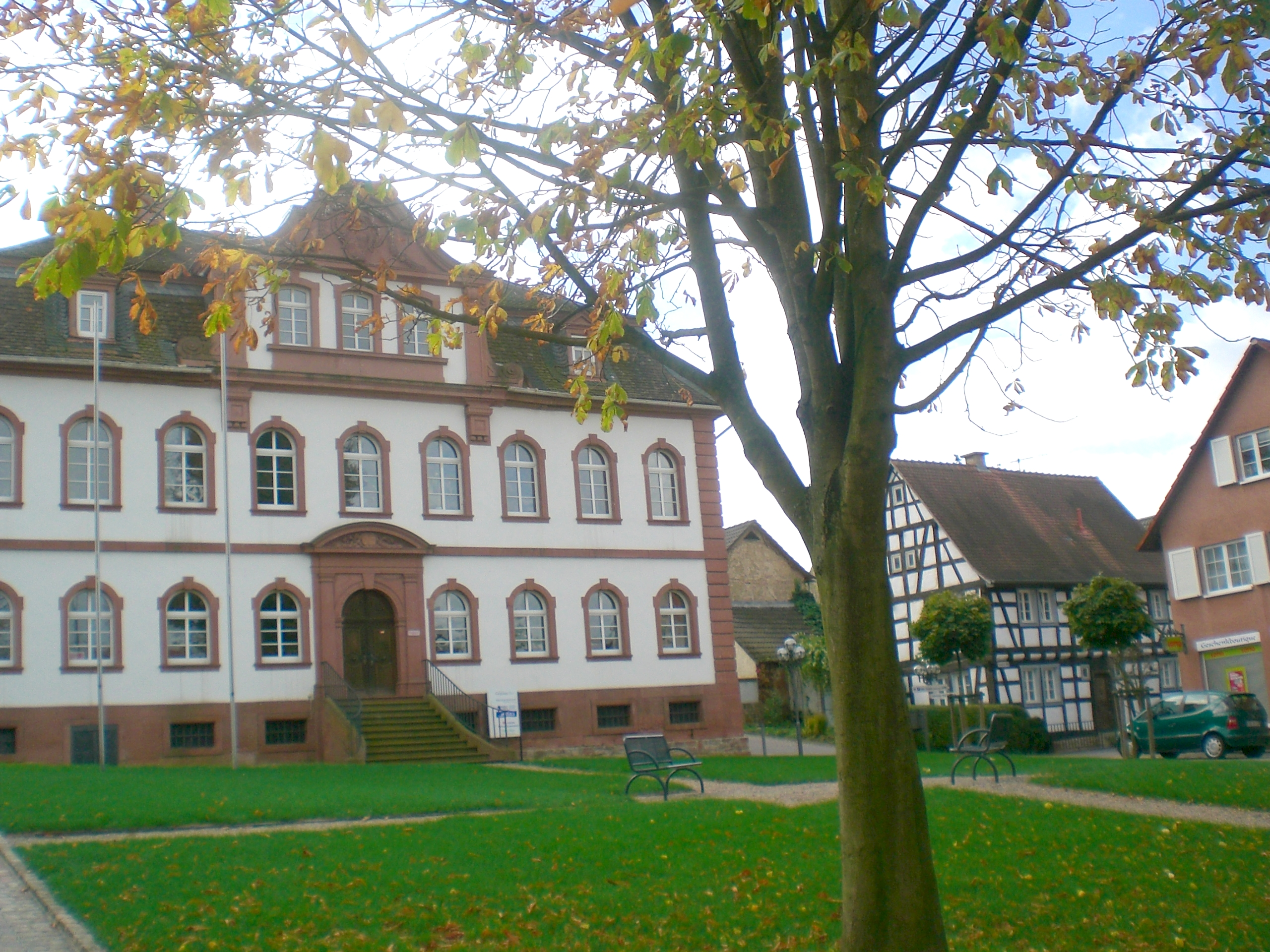 The Castle of Bad König, Germany